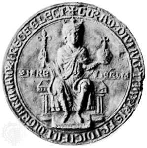 German king from 1237 and king of Sicily from 1251, titular king of Jerusalem